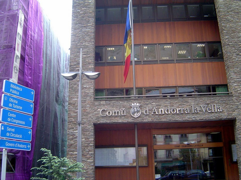 Town hall of Andorra la Vella, Andorra